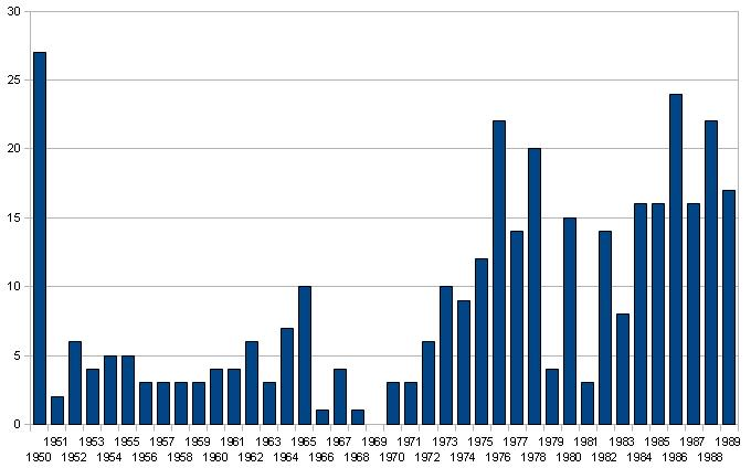 Number of grandmasters in the years 1950-1989